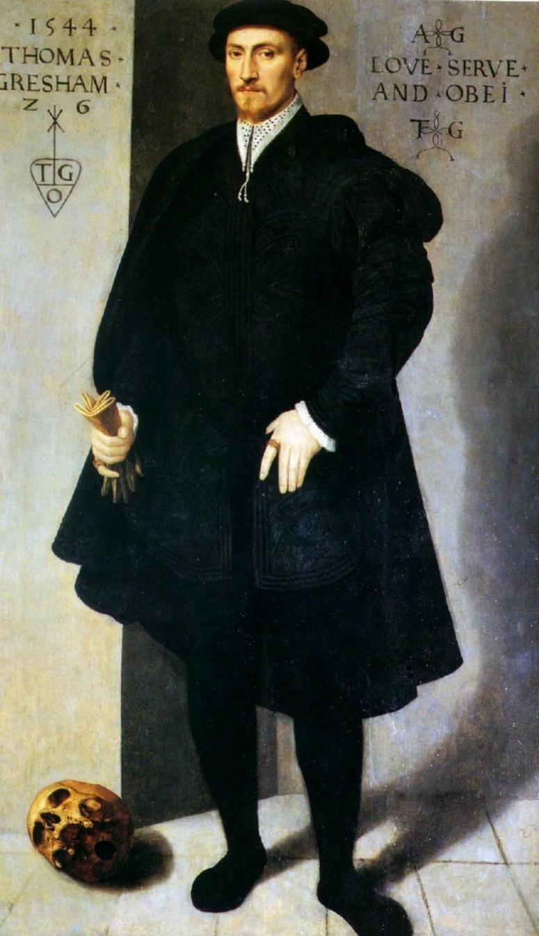 Unsigned portrait in oils dated 1544 of Sir Thomas Gresham, in the collection of the Mercers' Company of the City of London. 1544 portrait of Sir Thomas Gresham, aged 26 as inscribed, displaying his merchant's mark (left). Apparently commemorating his 1544 marriage to Anne Ferneley, with the couple's initials "AG" and "TG" framing the marriage vows Love Serve and Obei (right). The human skull denotes Vanitas. Flemish school, collection of the Mercers' Company, City of London